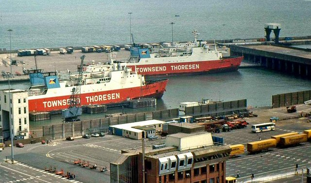 Townsend Thoresen ferries at Dover. Townsend Thoresen started ferry operations from Dover in 1928 and continued until 1987 when taken over by P&O. Although the hulls are still in Townsend Thoresen livery, the ferries have the P&O flag logo on their funnels. The “European Clearway” is on the left and the “European Trader” on the right. Name: EUROPEAN CLEARWAY IMO Number: 7411258 Name: EUROPEAN TRADER IMO Number: 7400273